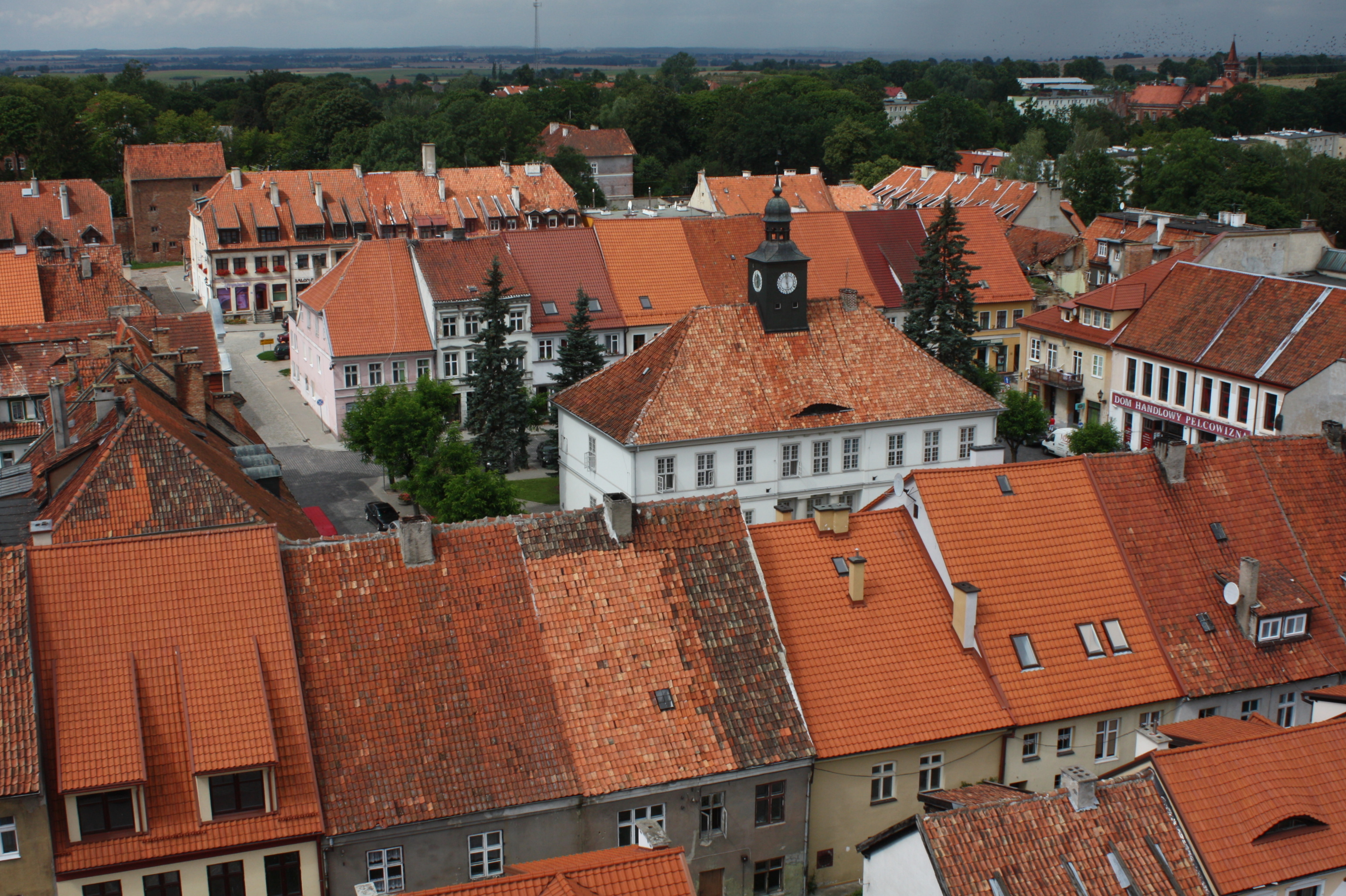 This photo of Warmian-Masurian Voivodeship was taken during Wikiexpedition 2012 set up by Wikimedia Polska Association. You can see all photographs in category Wikiekspedycja 2012. The making of this document was supported by Wikimedia Polska.